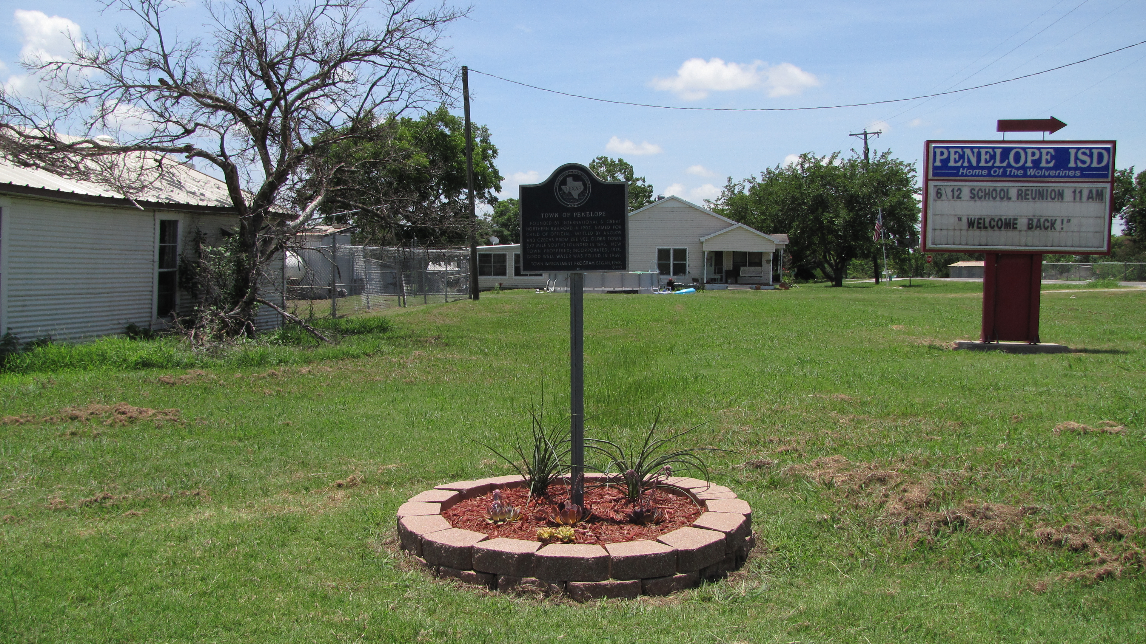 (This image represents an Open Plaques entry)